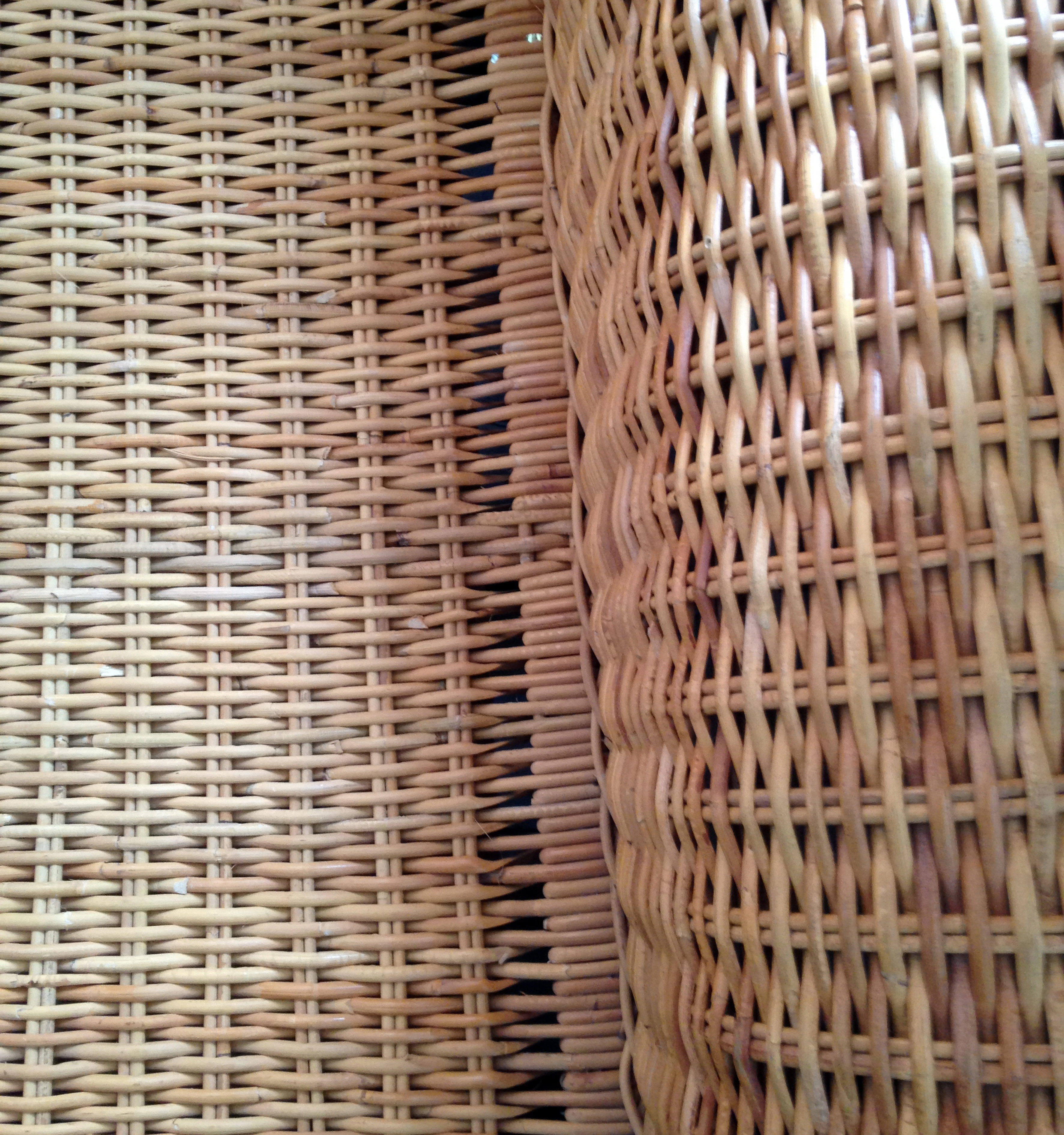 part of furniture Fred Astaire Diwan of the designer Gunther Lambert, material rattan core (Heavy Cane)